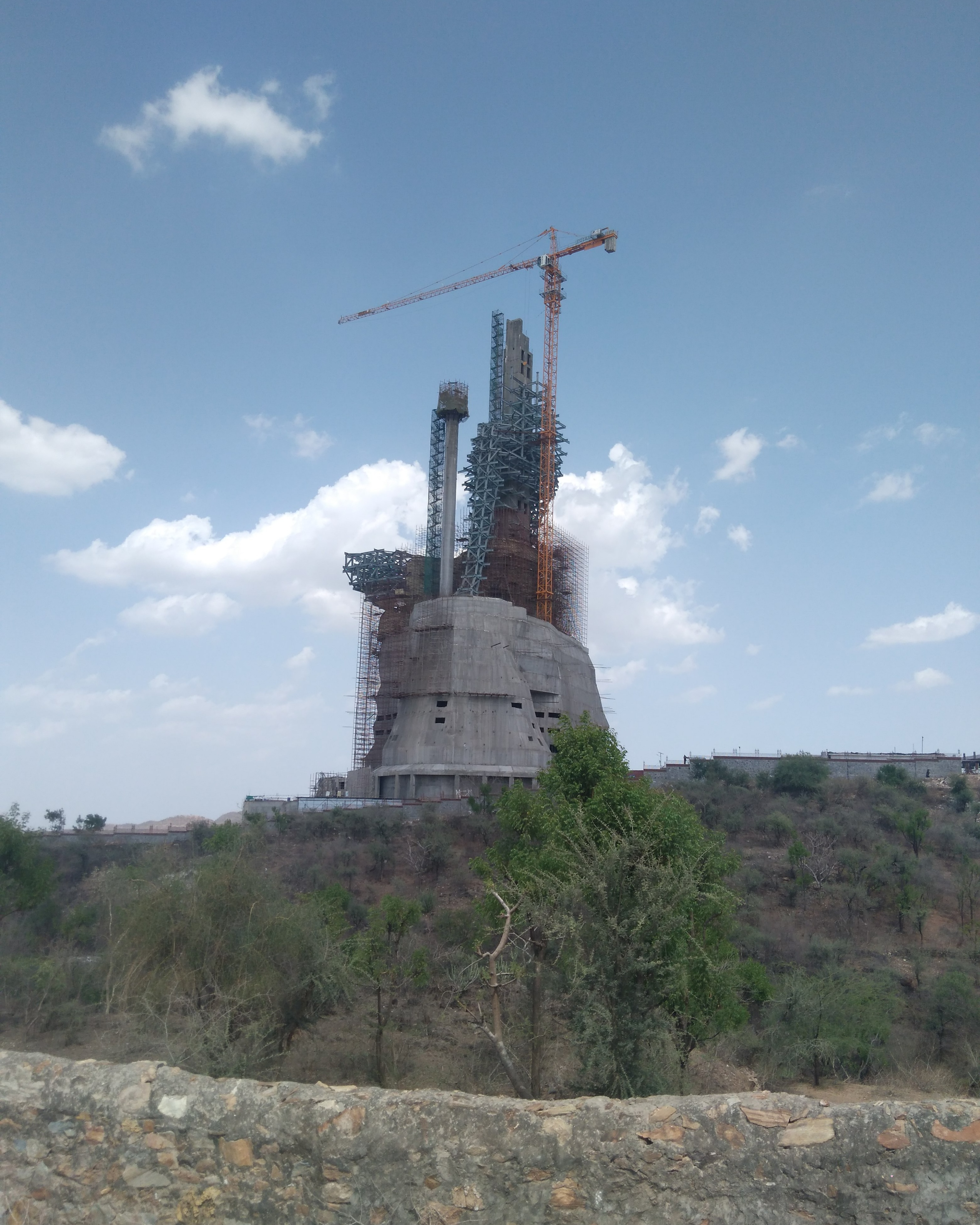 World's Tallest Shiva Statue in construction phase at Nathdwara, Rajasthan